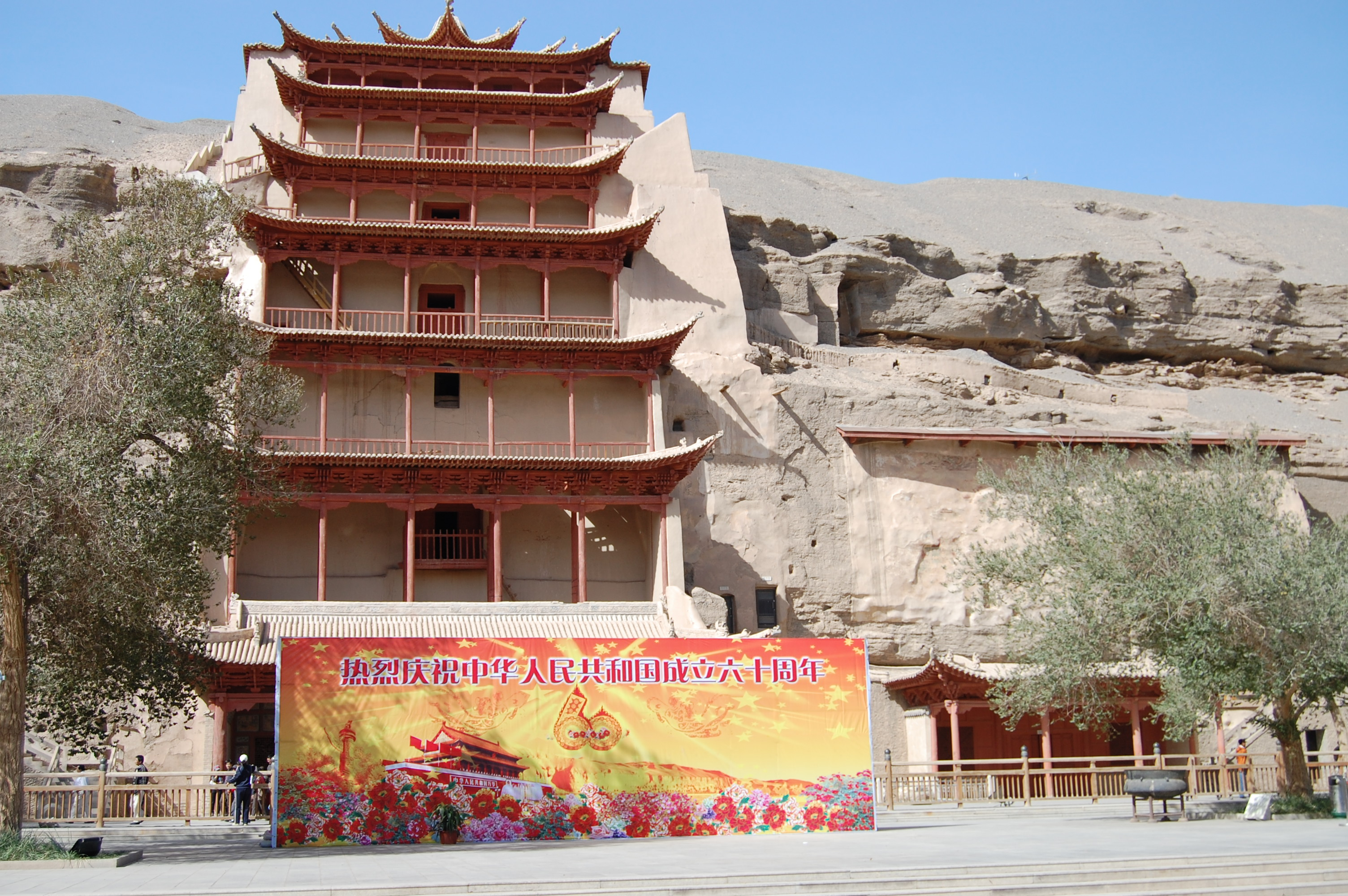 Entrance gate to the Magao Cave with Buddha statue (35 m high); near Dunhang, Gansu Province, China; in front poster of the 60th anniversary of Peoples Republic of China